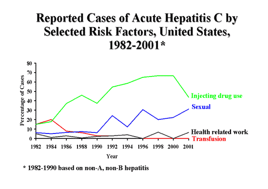 Hepatitis C: Slide Set: 1 | CDC Viral Hepatitis